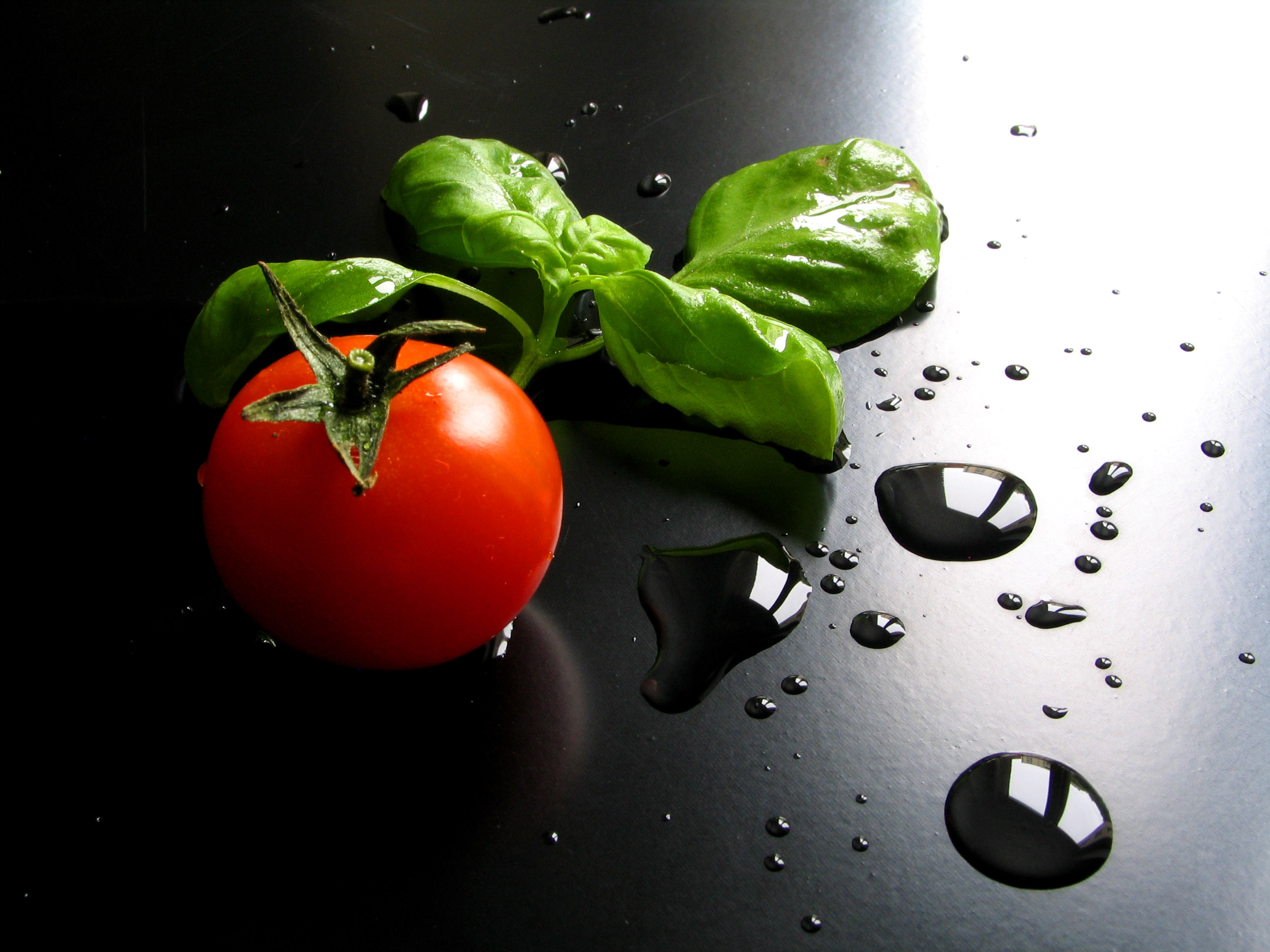 Here the "RGB Tests" without Blue, dedicated to all that suggested to get rid of the blue component. Didn't have any mozzarella, sorry (not a bad idea to compose my italian flag actually...)